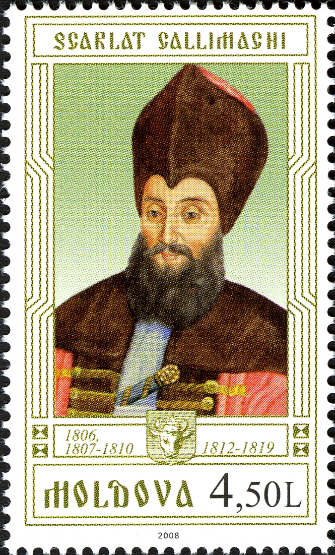 Stamp of Moldova